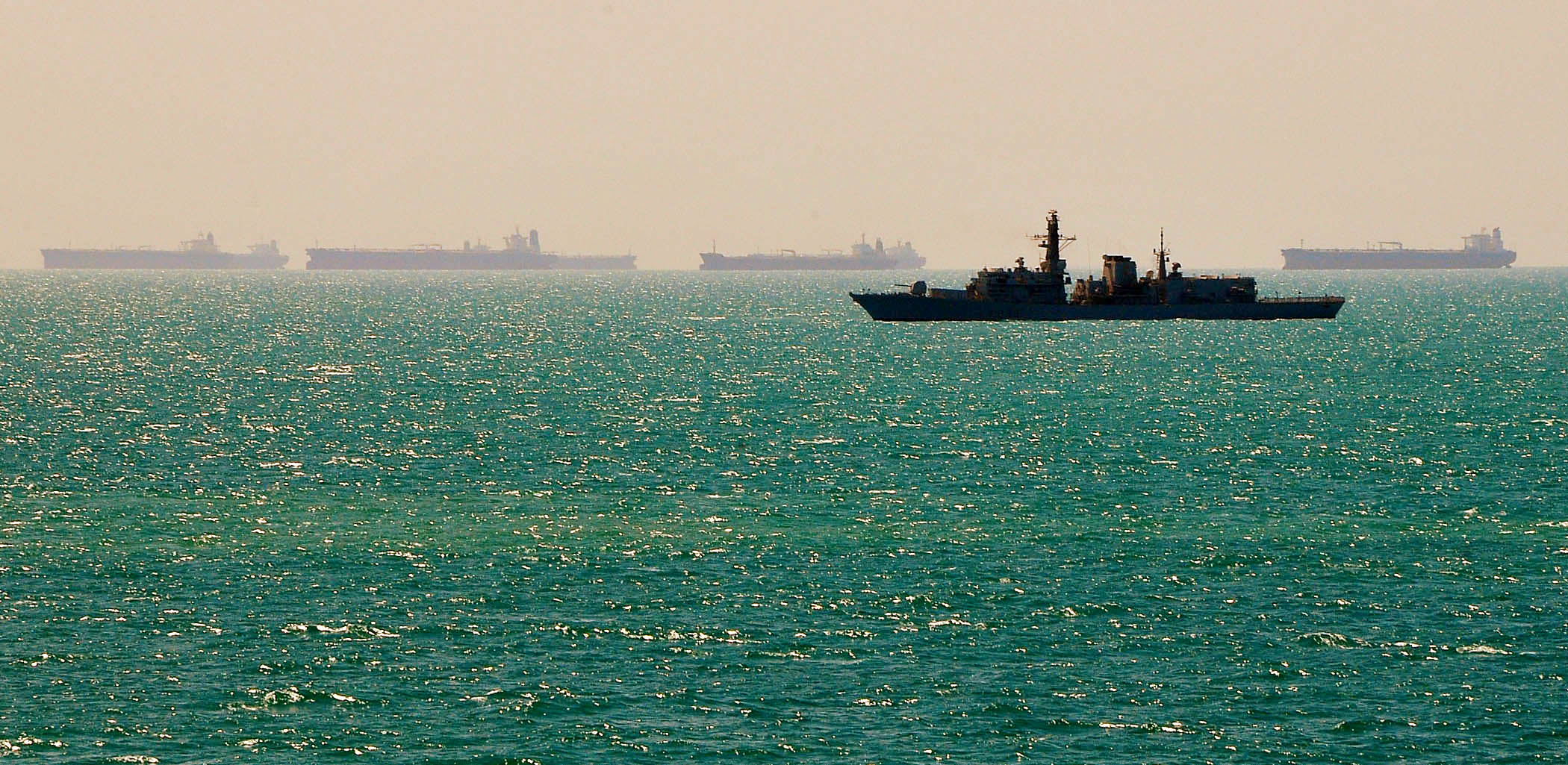 PERSIAN GULF (March 26, 2009) The Royal Navy frigate HMS Richmond (F 239) patrols the waters surrounding the Al Basra Oil Terminal off the coast of Iraq while merchant vessels wait to take on oil. Richmond is joined by Iraqi and American ships, including the guided-missile cruiser Lake Champlain, which is deployed as part of the Boxer Amphibious Readiness Group supporting maritime security operations in the U.S. 5th Fleet area of responsibility. (U.S. Navy photo by Mass Communication Specialist 2nd Class Daniel Barker/Released)